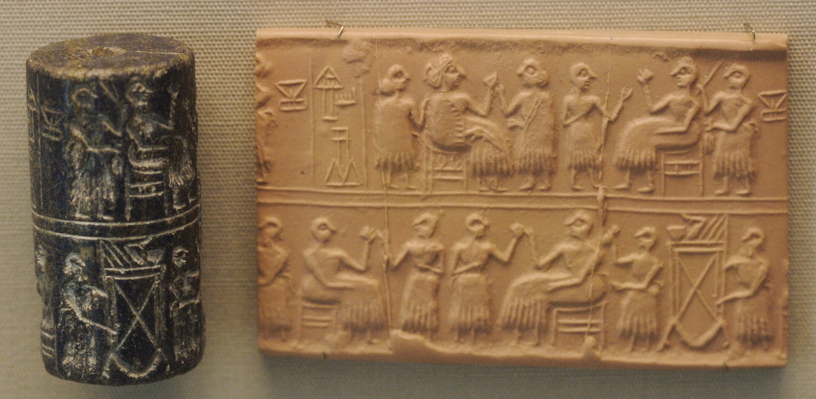 I had a wonderful day at the British Museum with CoryQ (of MonkeyRiverTown) and his wife Mary. These are everything I shot that day, unedited and uncleaned, except for shrinking them some to spead up the upload. Cylinder-seal of the "Lady" or "Queen" (sumerian NIN) Puabi, one of the mais defuncts of the Royal Cemetery of Ur, c. 2600 BC. Banquet scene, typical of the Early Dynastic Period.